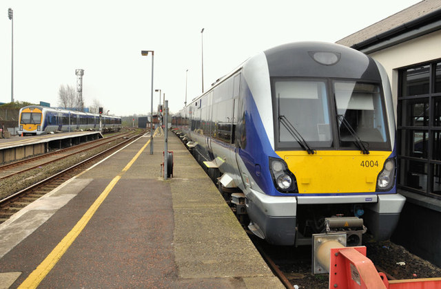 C4K train, Coleraine. C4K set 4004, not in use, in the former Derry Central bay 2091721 and C3K set 3014, also not in use, in the left background.